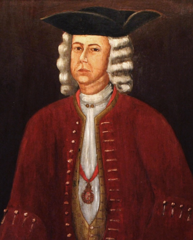 Luís Mascarenhas, 2nd Count of Alva (1685-1756), Viceroy of Portuguese India